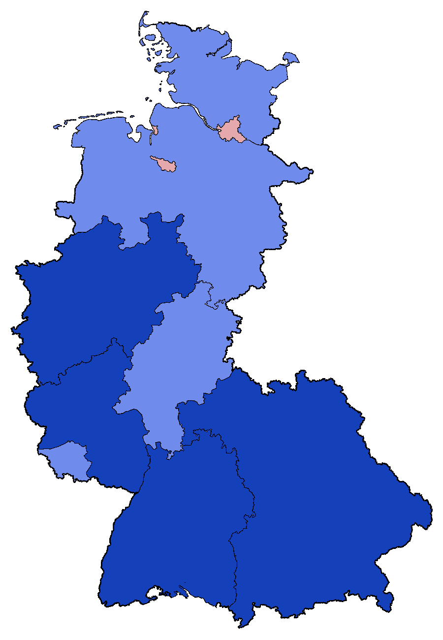 Electoral map showing the party list vote results (Zweitstimmen) of the 1957 Bundestag (West German parliament) elections by state. Lighter blue denotes states where CDU/CSU had the plurality of votes; darker blue denotes states where CDU/CSU had the absolute majority of the votes; and pink denotes states where the SPD had the plurality of votes.